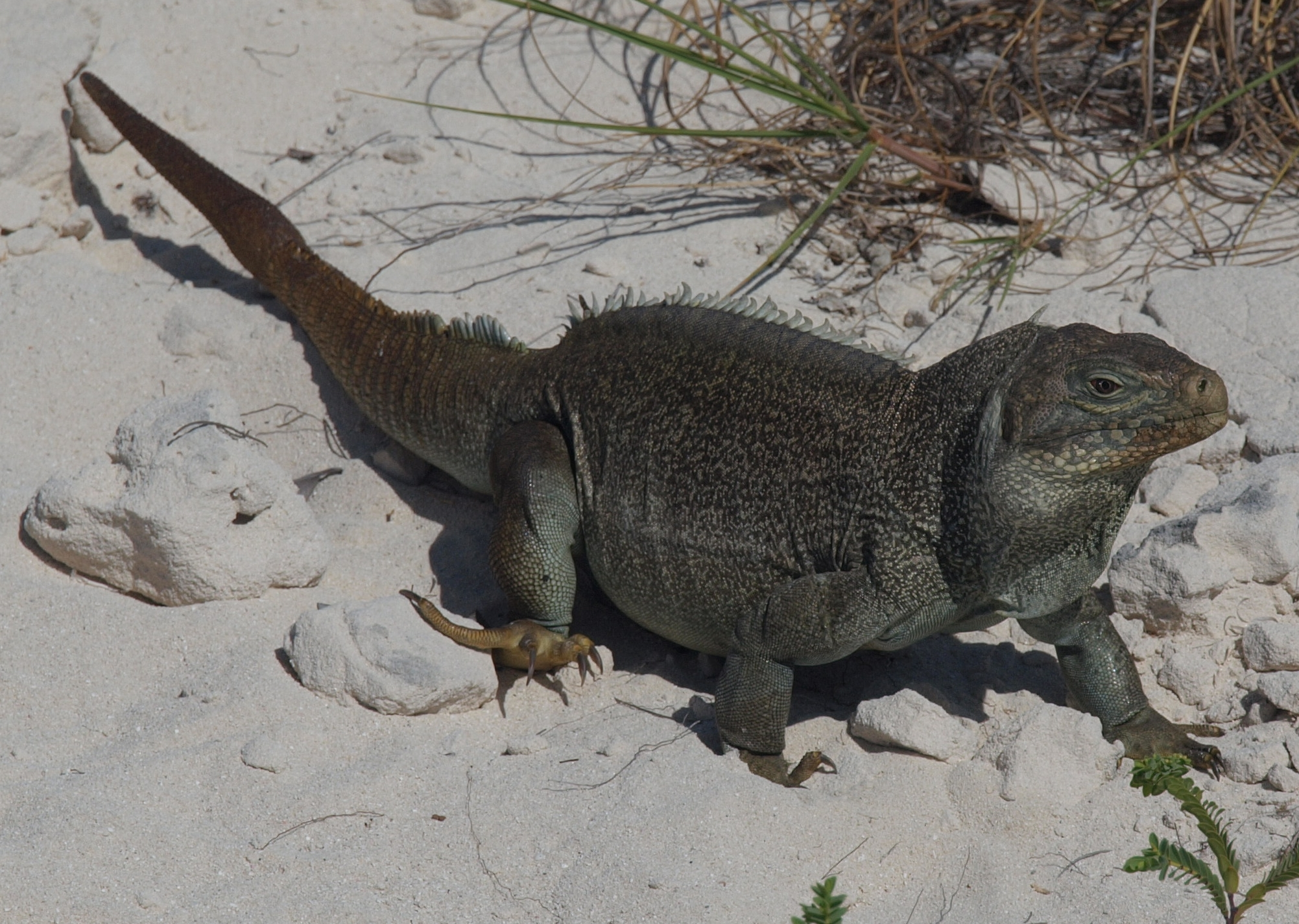 Iguana (cyclura carinata) from Caicos islands